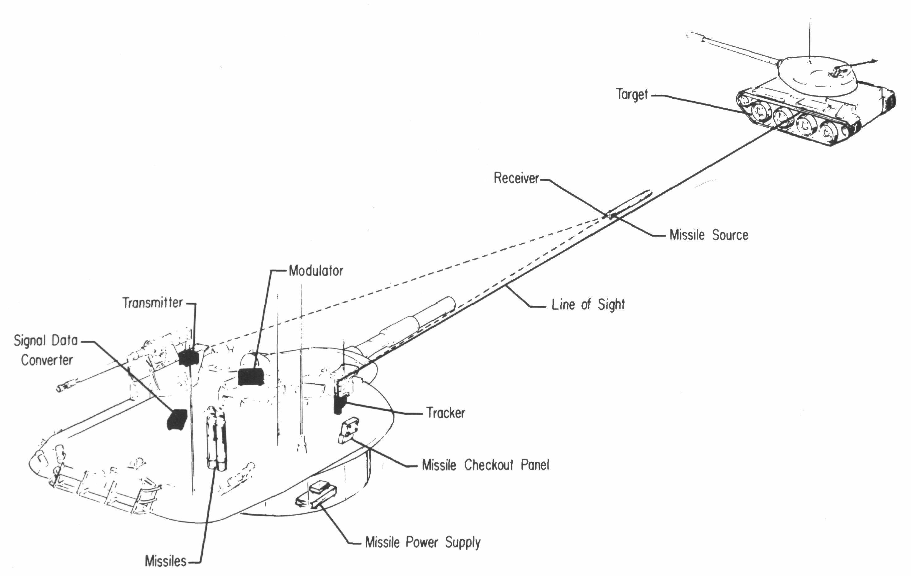 Shillelagh firing schema.